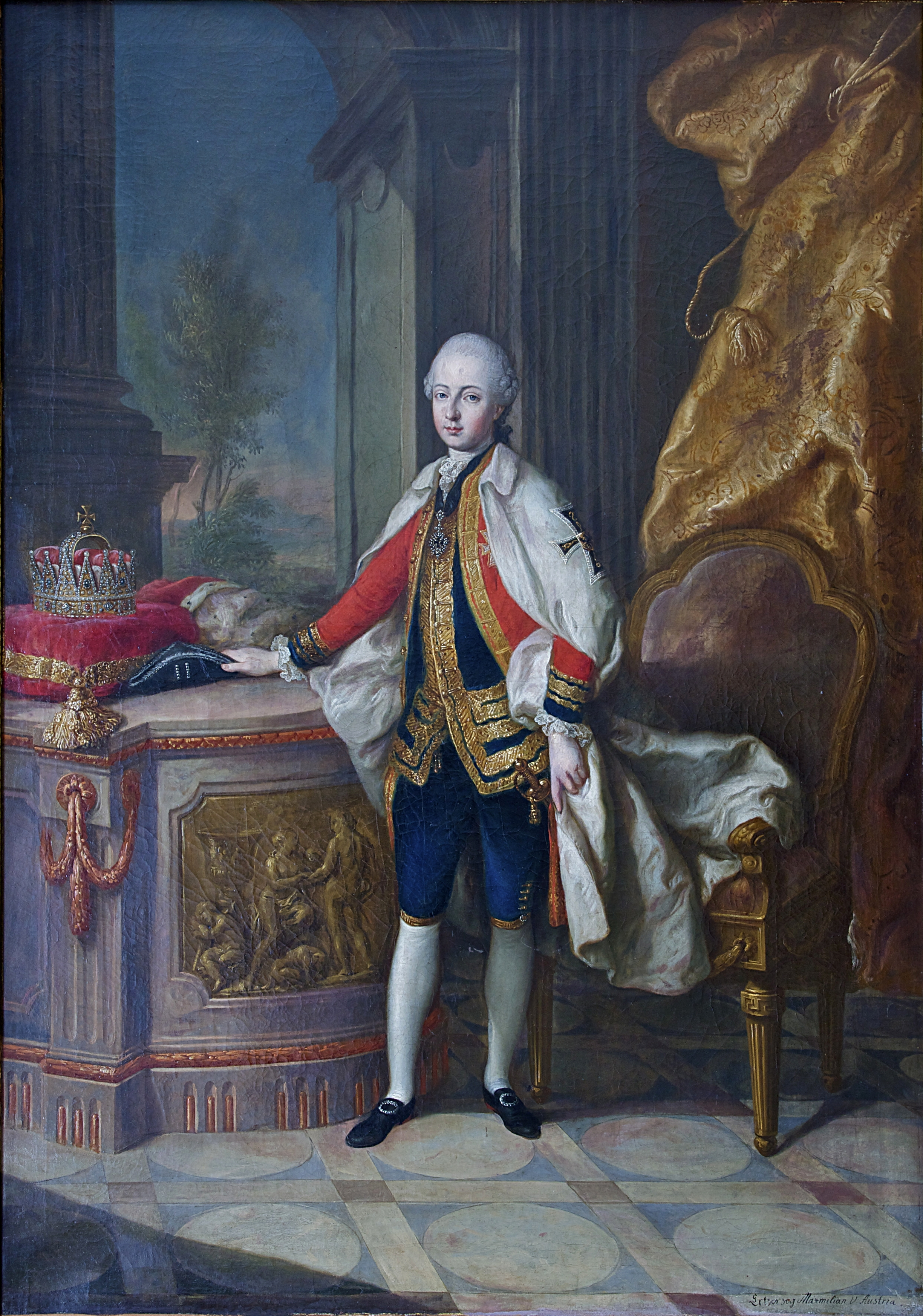 Portrait of Maximilian Francis of Habsburg-Lorraine, Archduke of Austria (1756-1802). Last brother of Emperors Joseph II & Leopold II, and of Queen Marie-Antoinette of France. He's painted as Grand Master of the Teutonic Order.